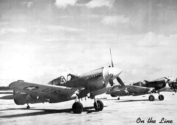 Local call number: N044866 Title: [Airplanes "on the line"] [picture] Publication info: Between 1939 and 1945. Physical descrip: 1 photonegative : b&w ; 4 x 5 in. Series Title: (General collection)